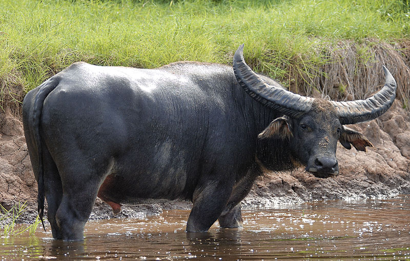 Wild Water Buffalo (Bubalus bubalis arnee) taken at Corroboree Billabong in the Northern Territory of Australia.